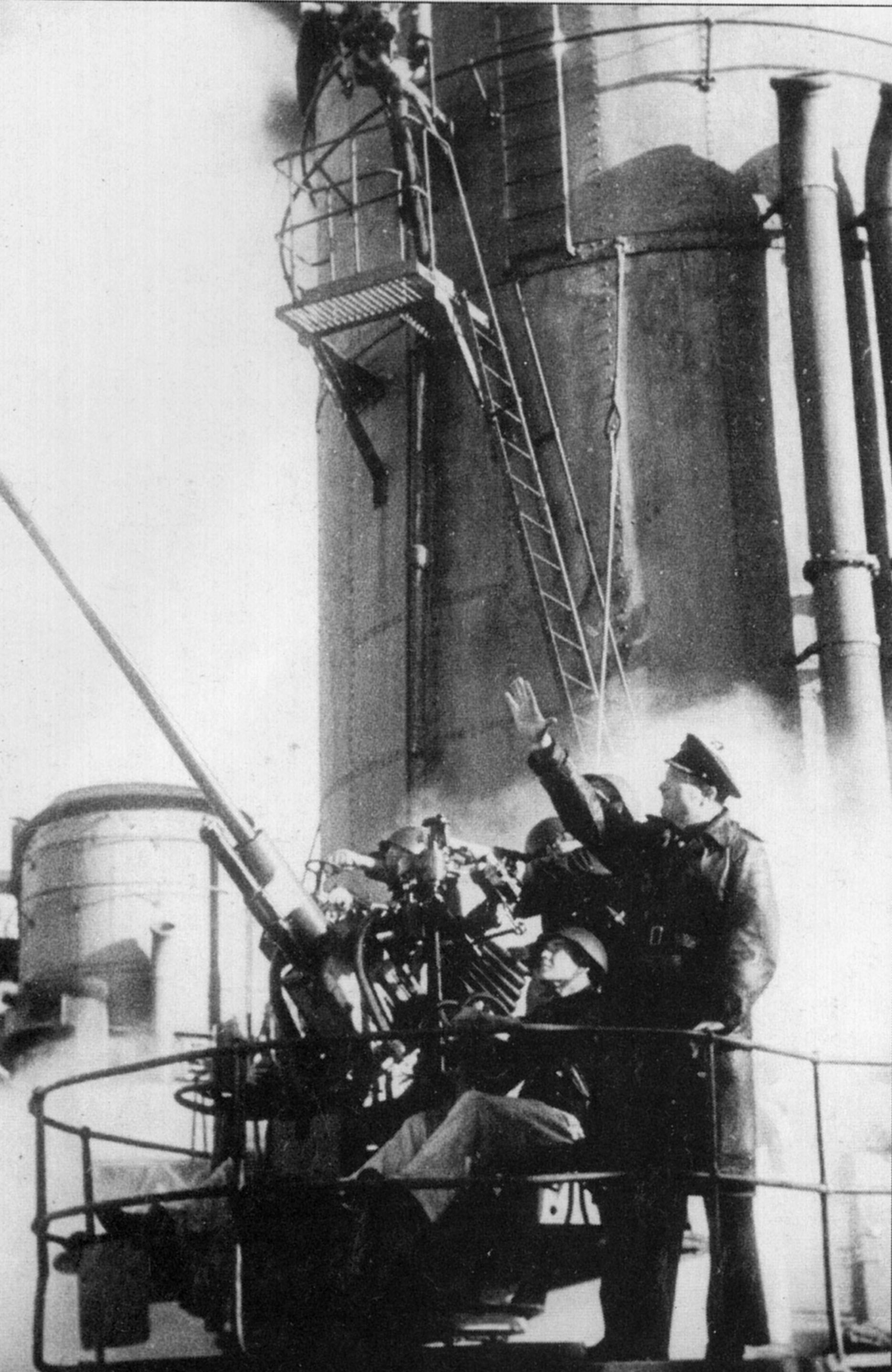 Soviet 37 mm anti-air gun 70-K on cruiser Krasnyy Kavkaz.